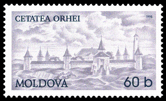 Stamp of Moldova